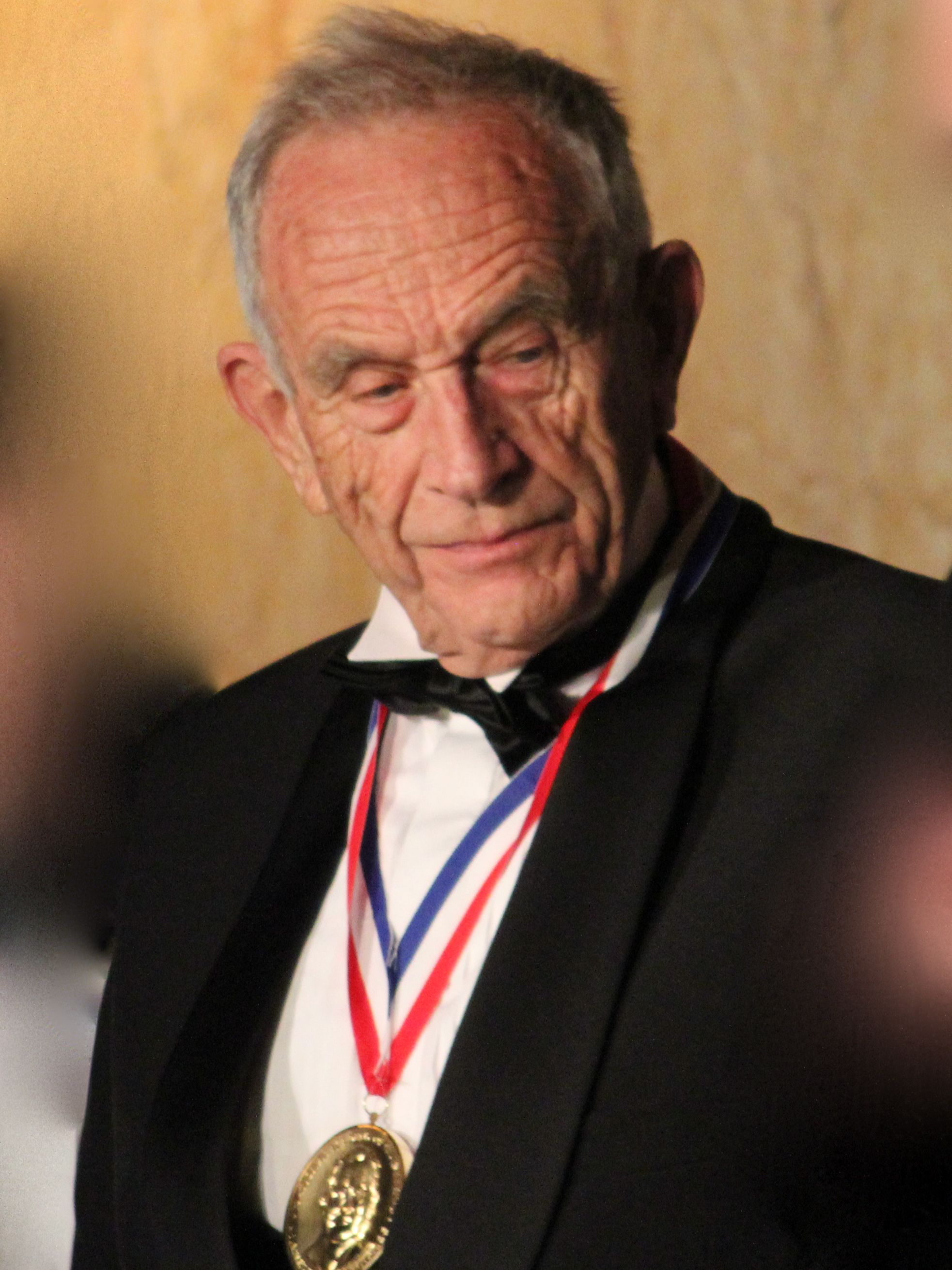 Photo of Dr. Thomas Haug taken by Stephen Wilkus at the Feb. 19, 2013 National Academy of Engineering awards banquet for the 2013 Charles Stark Draper Prize winners.